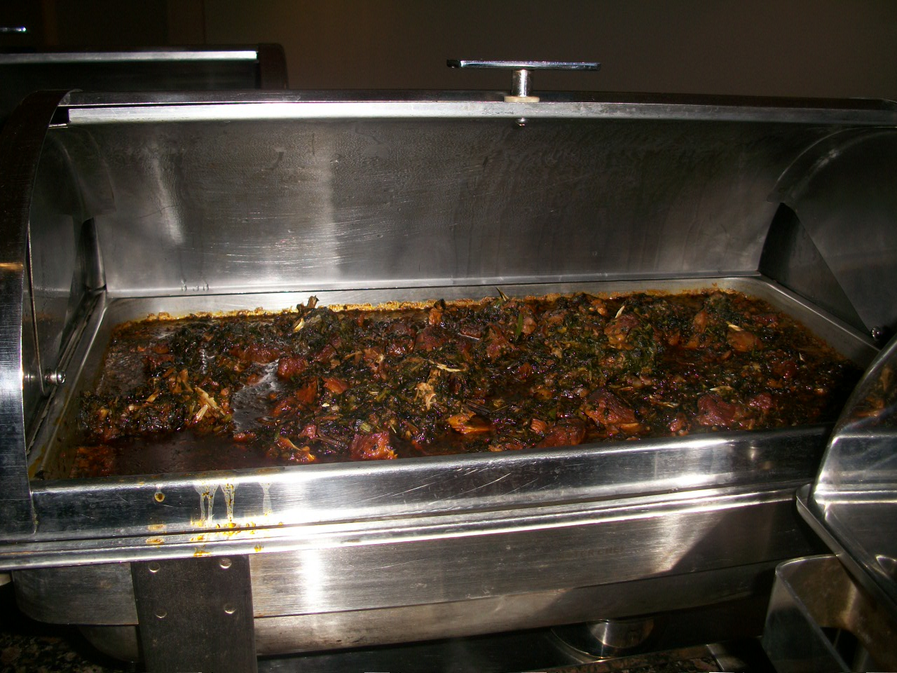 Edikaikong from Calabar This is an image of food from Nigeria